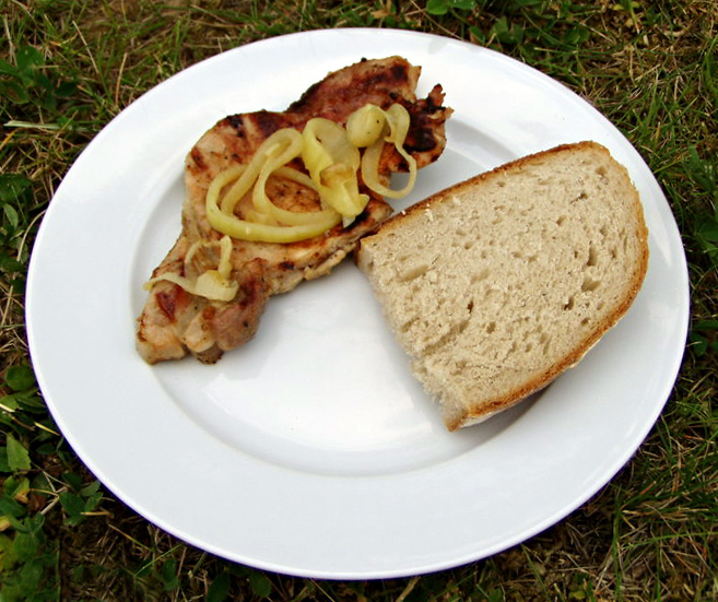 Thuringian roast (Rostbrätel).